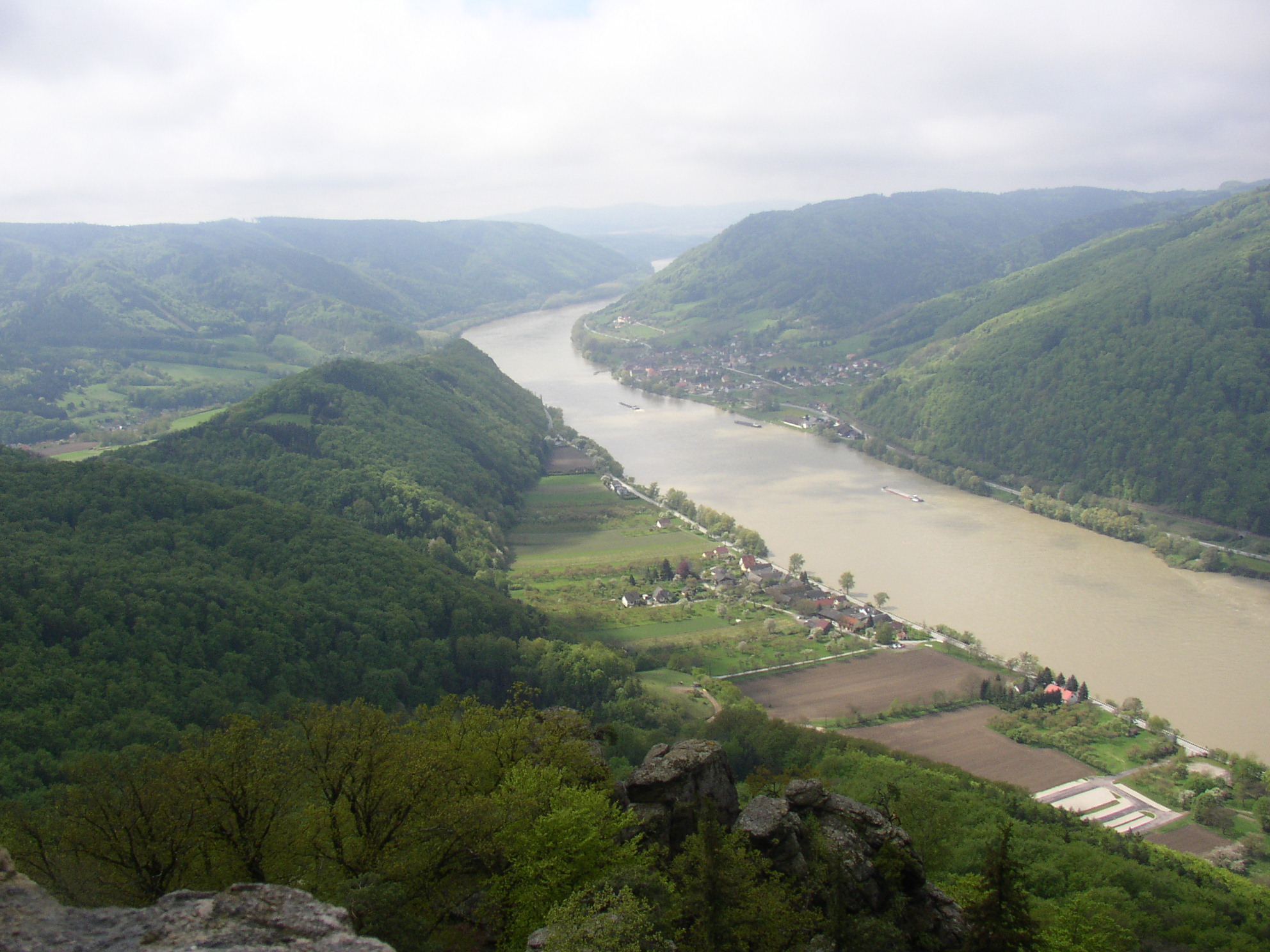 Wachau valley west of Aggstein castle. The village on the opposite bank of the Danube is Aggsbach Markt.